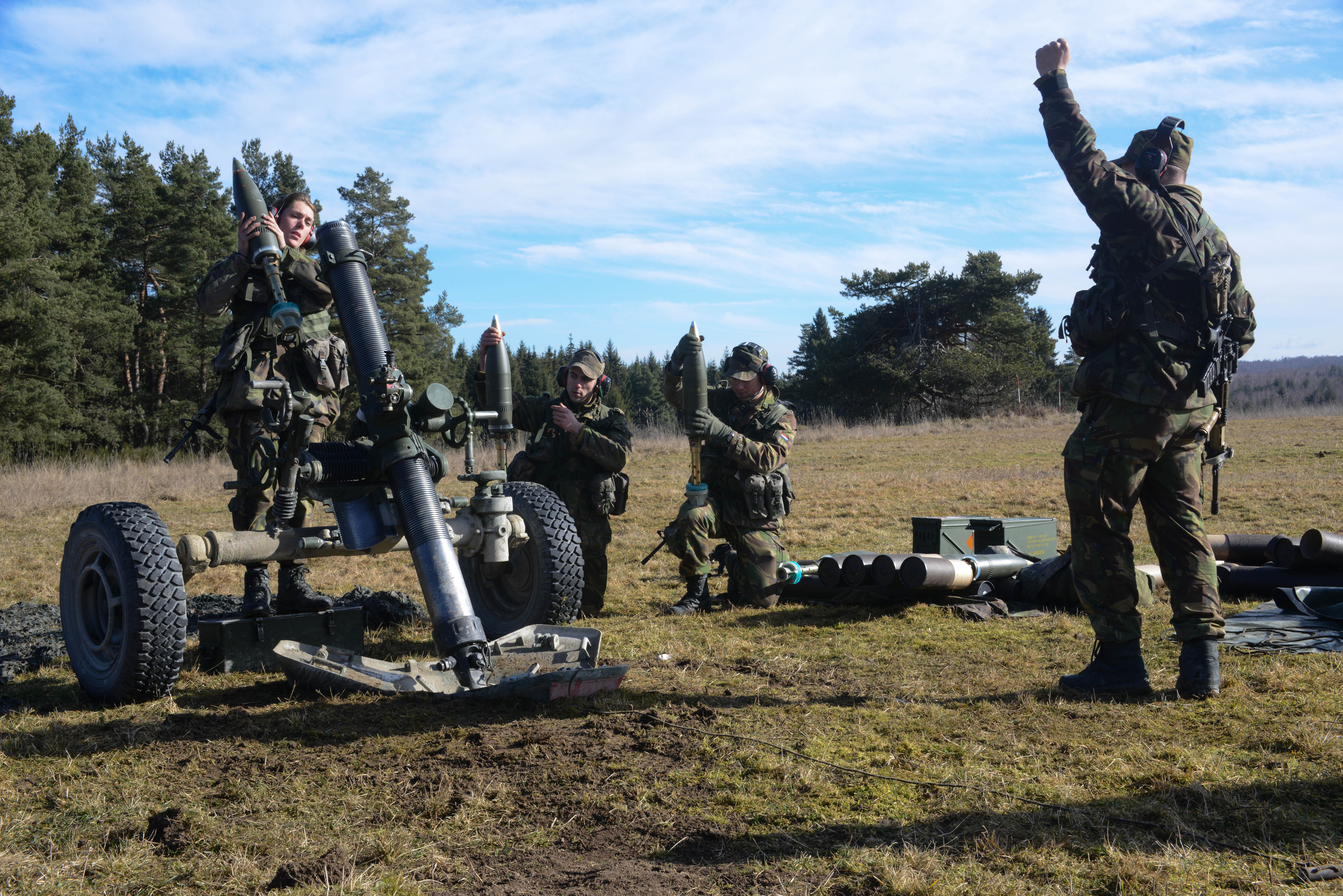 Dutch soldiers, assigned to Fire Support Battalion, Alpha Battery, from t’Harde, Netherlands, fire a 120mm illumination mortar round in preparation for the European Battlegroup Certification, at the Grafenwoehr Training Area in Germany, Feb. 22, 2014. European Union Battlegroup 2014-02, the European Union’s quick reaction force, is training 1,550 soldiers from Belgium, the Netherlands, Luxembourg, Spain and the former Yugoslavian Republic of Macedonia as part of the certification training. (Photo by U.S. Army Spc. Franklin R. Moore/Released)